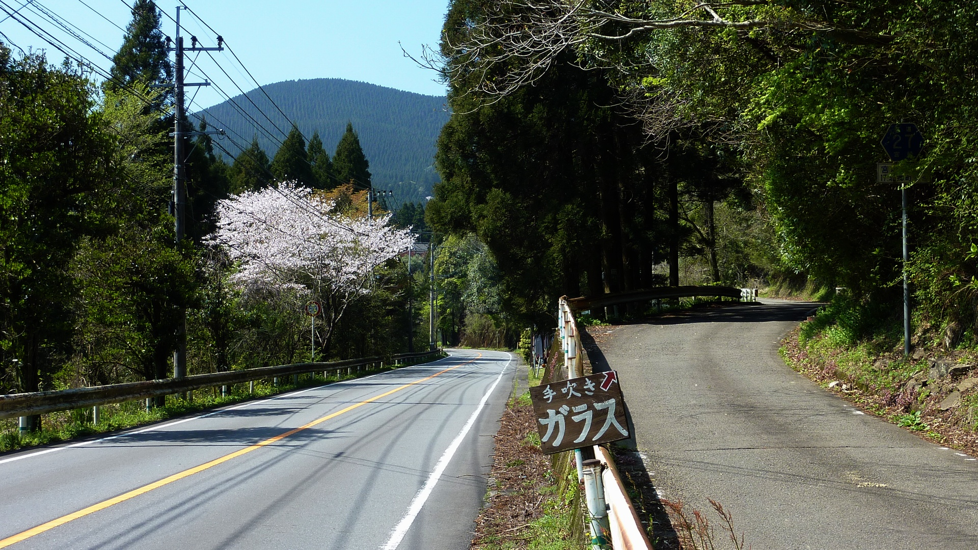 Ending point of the Miyazaki Prefectural Road Route 27 Ends in Taniai, Kitagocho Kitakawachi, Nichinan City